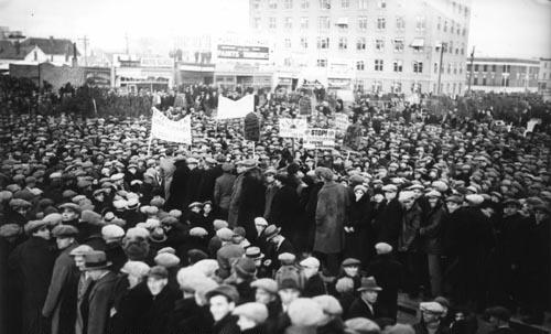 The "Hunger March" in Edmonton, Alberta, Canada